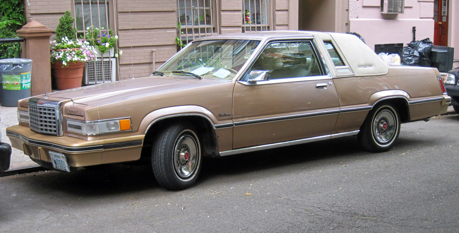 1982 Ford Thunderbird Town Landau, with the 4.2 litre V8 (the biggest engine offered in the T-bird for 1982). Assembled in Lorain, OH.